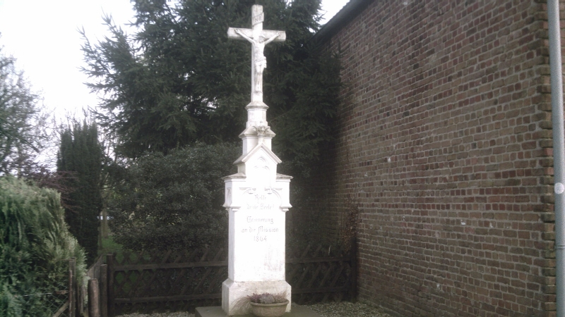 Calvary (Cross) in Bötzlöh, Viersen, Germany